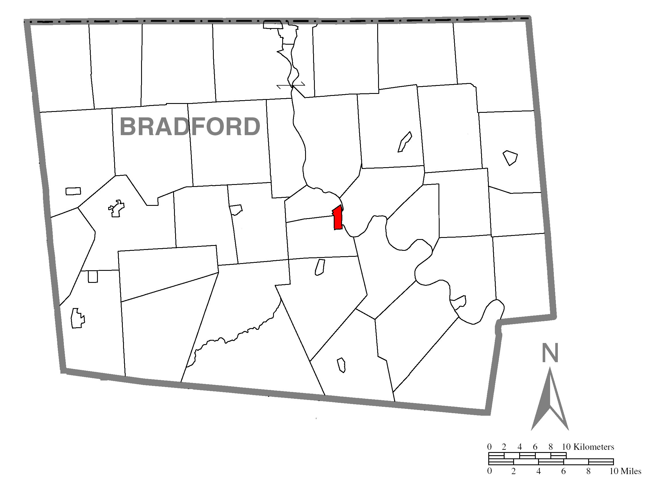 A map of Bradford County showing Towanda, Pennsylvania (alternate) highlighted on the map.